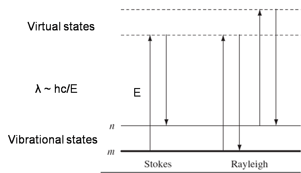 Stokes vs Rayleigh scattering